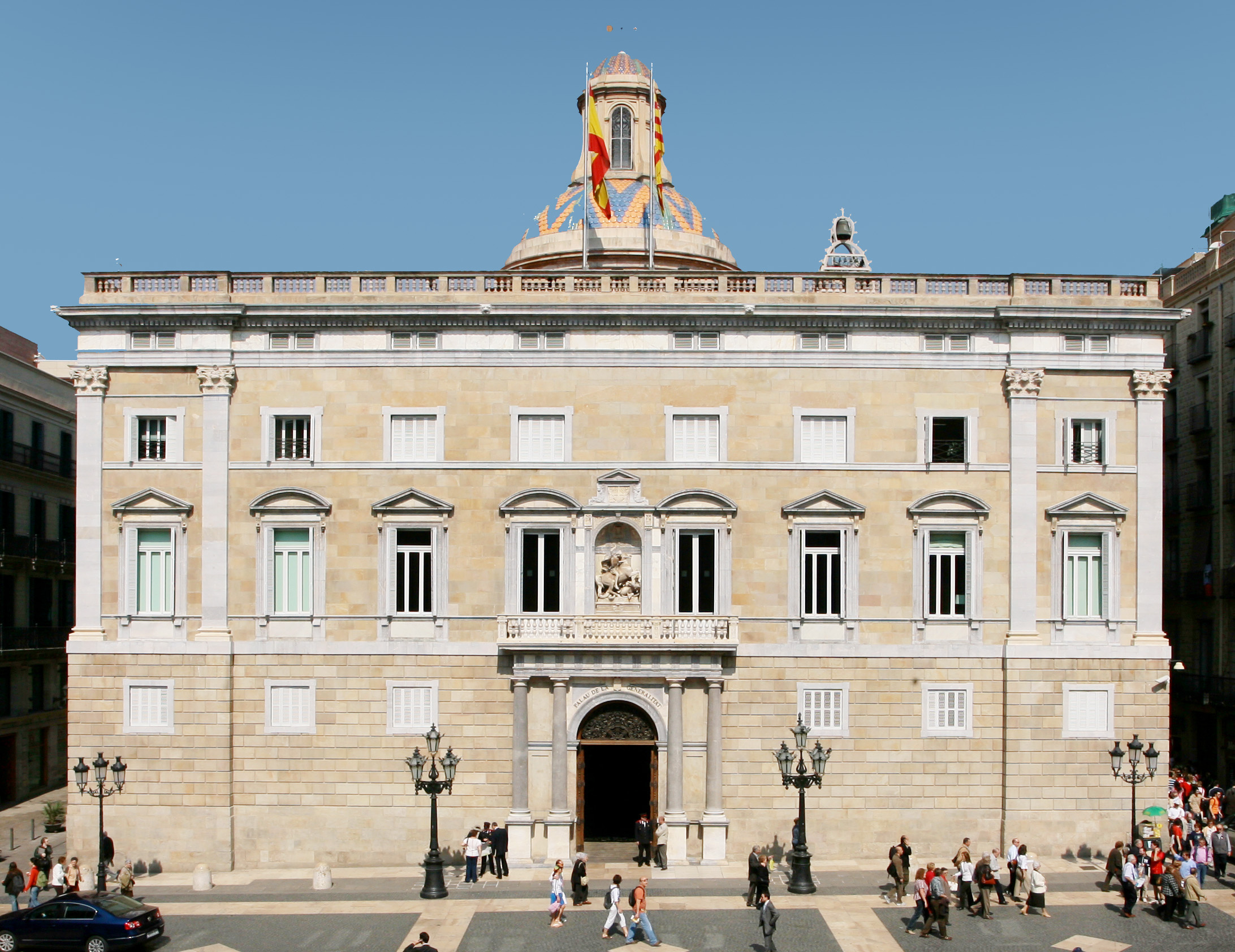 The Palau de la Generalitat de Catalunya houses the offices of the Presidency of the Generalitat de Catalunya (Barcelona, Catalonia, Spain)